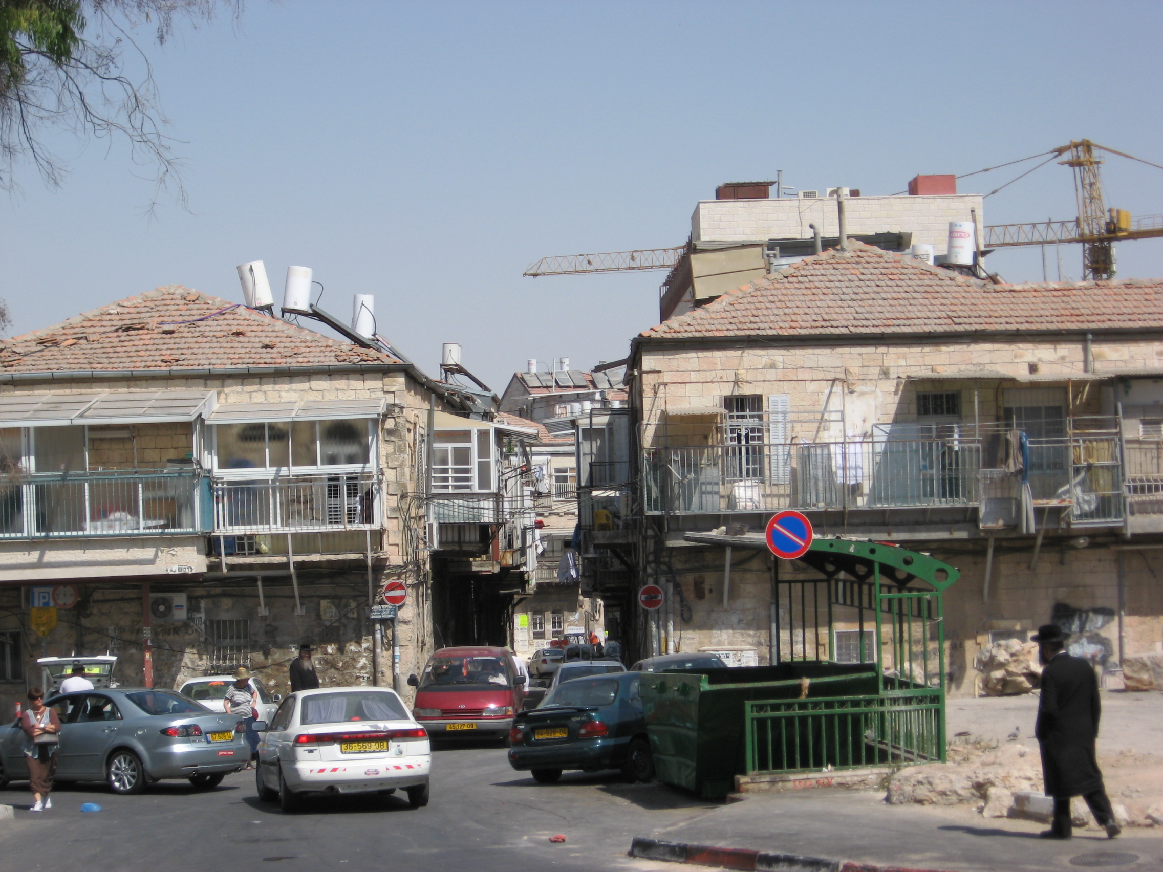 Me'a Sche'arim